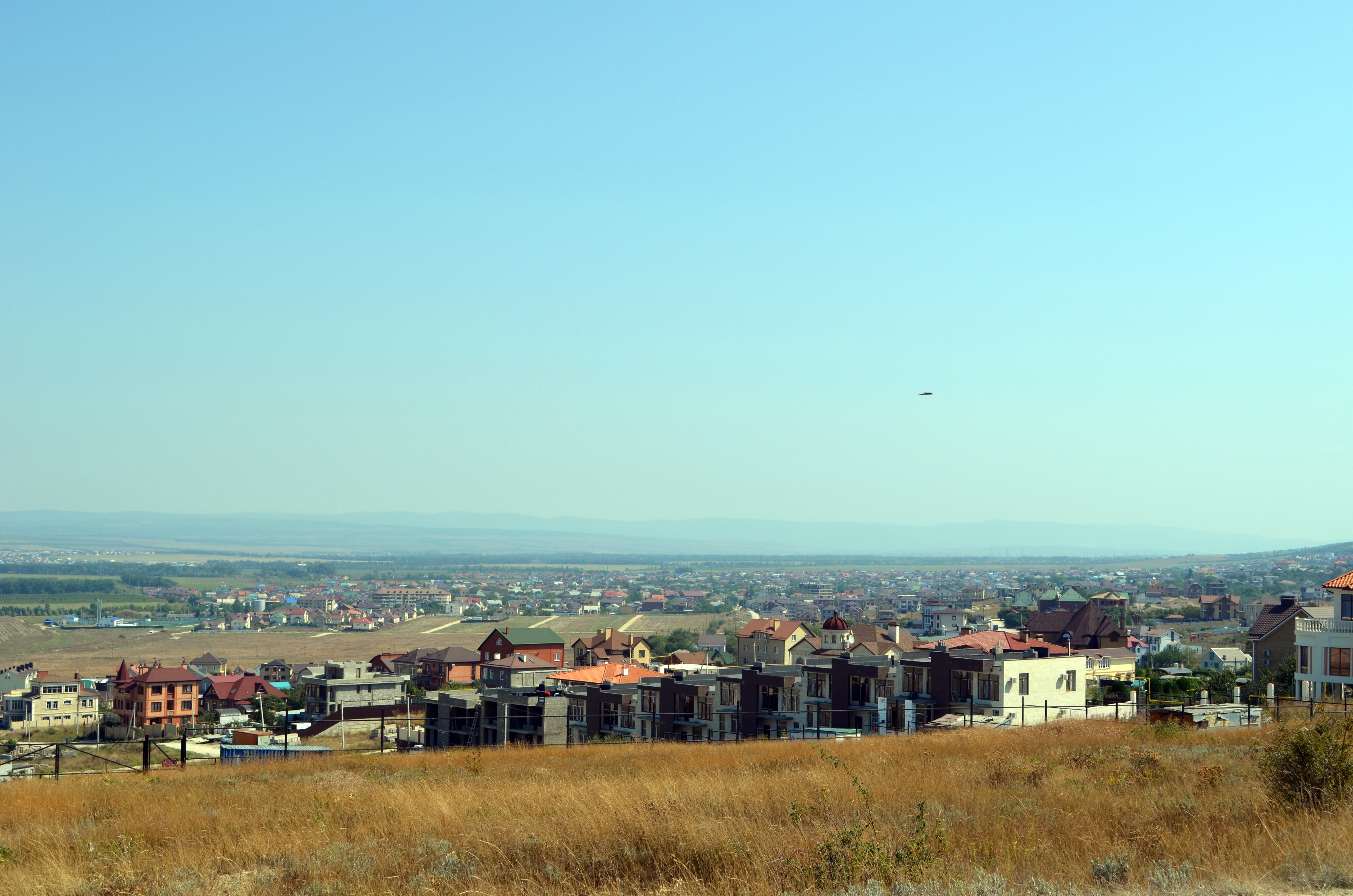 Su-Psekh view from Lysaya Mountain